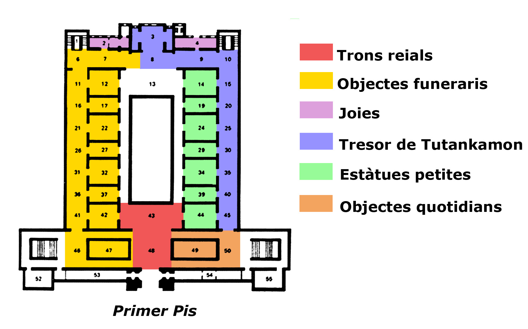 Egyptian Museum Cairo - First Floor.